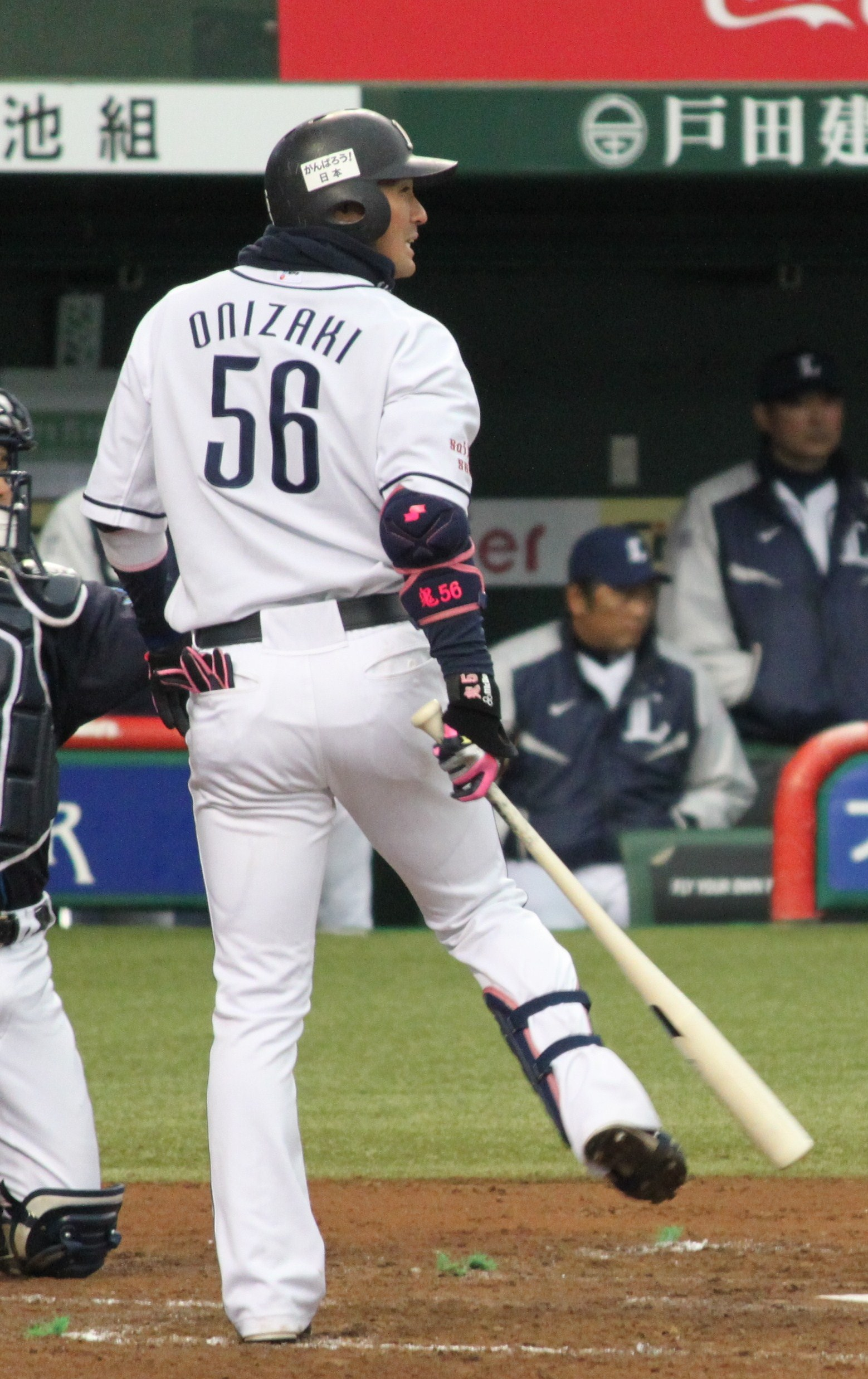 Yuji Onizaki, infielder of the Saitama Seibu Lions, at Seibu Dome.